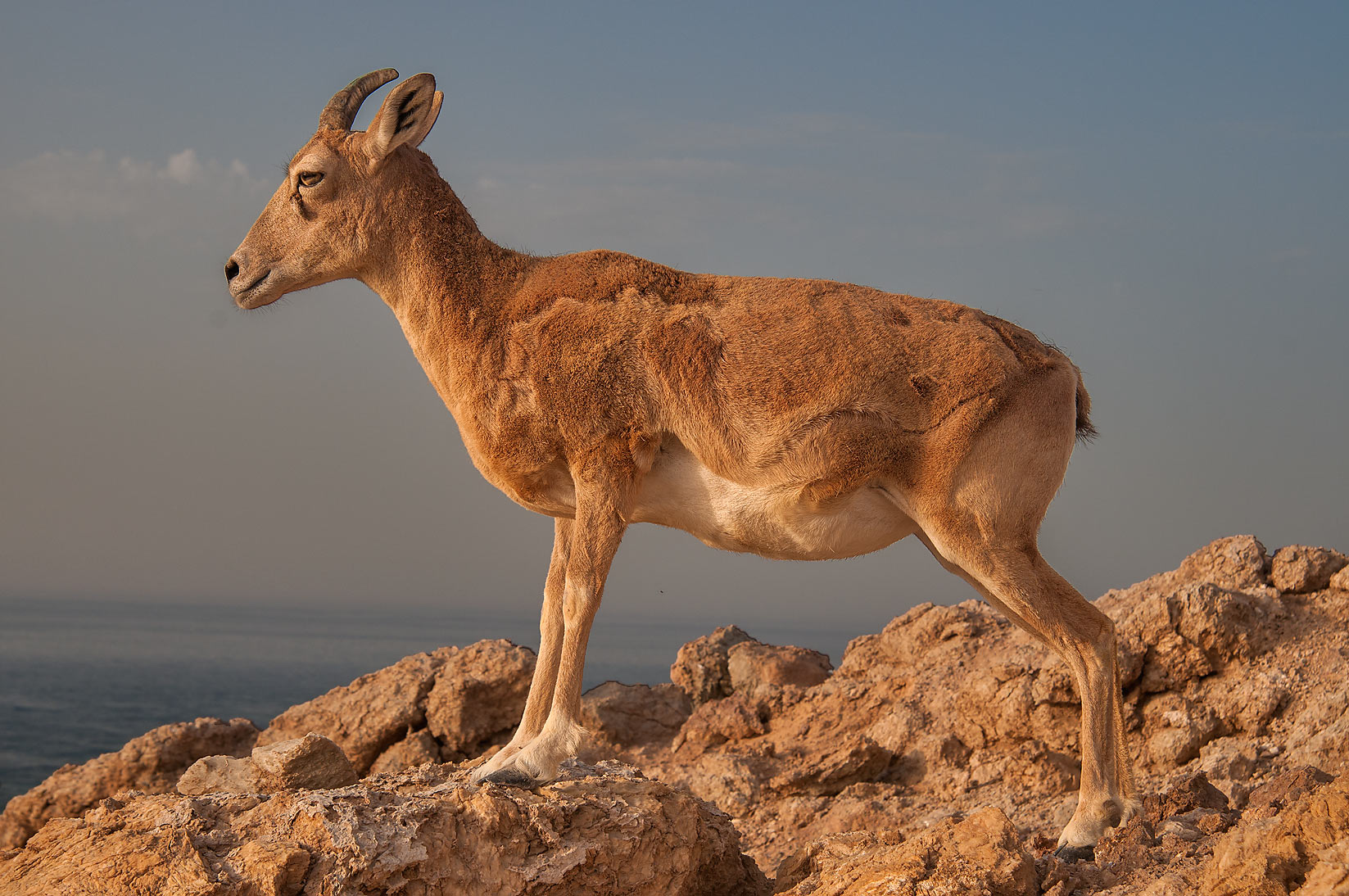 A mountain goat standing on rocks at the northern extremity of Halul Island.